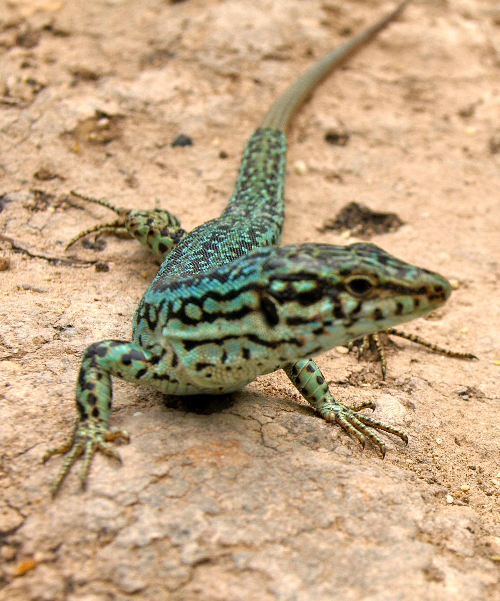 Pythisuse Wall Lizard Place Lloc/Place: Camí de sa pujada, Formentera